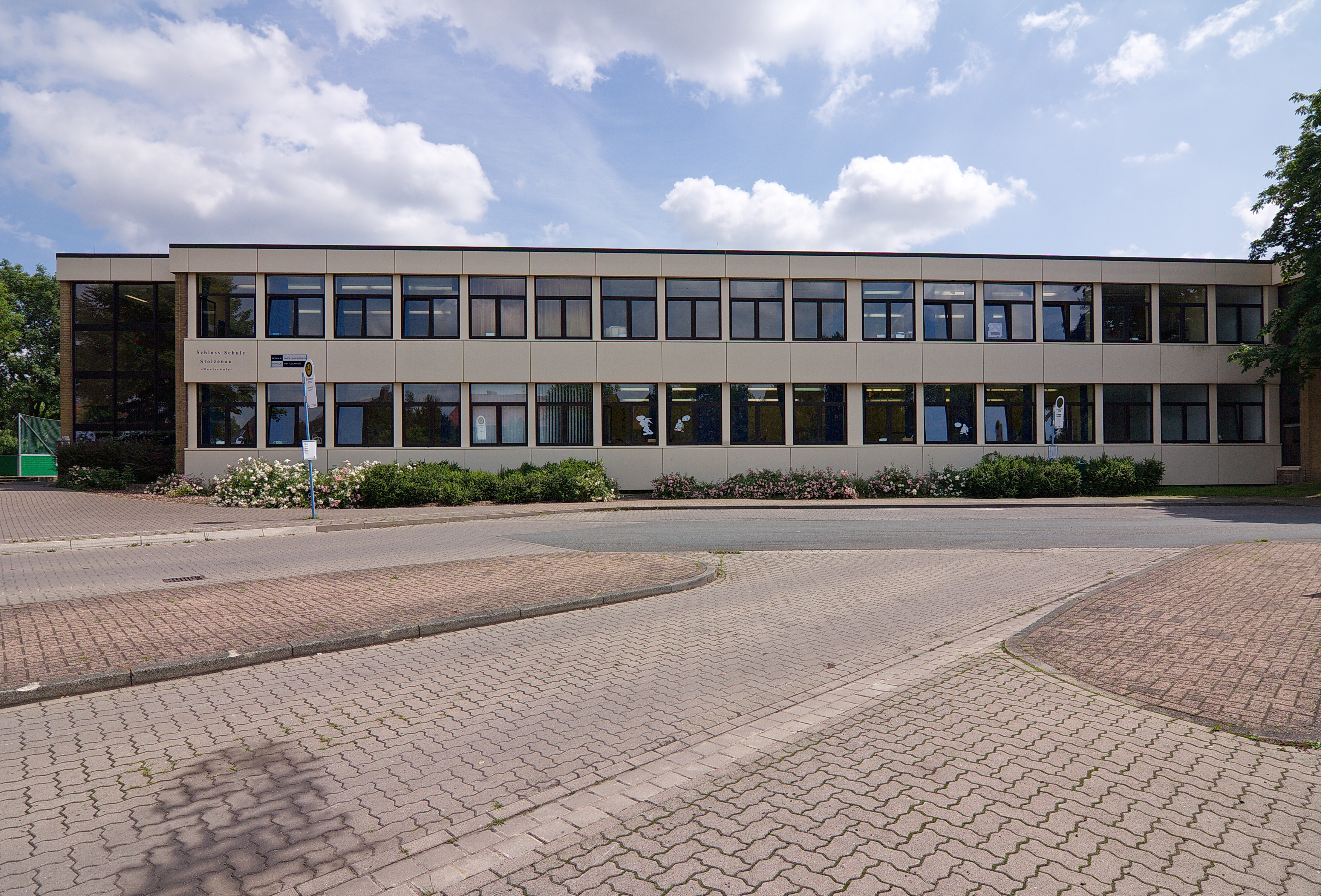 Die Realschule Schloss-Schule Stolzenau wurde an der Stelle des 1965 abgebrochenen Schlosses der Grafen von Hoya errichtet.